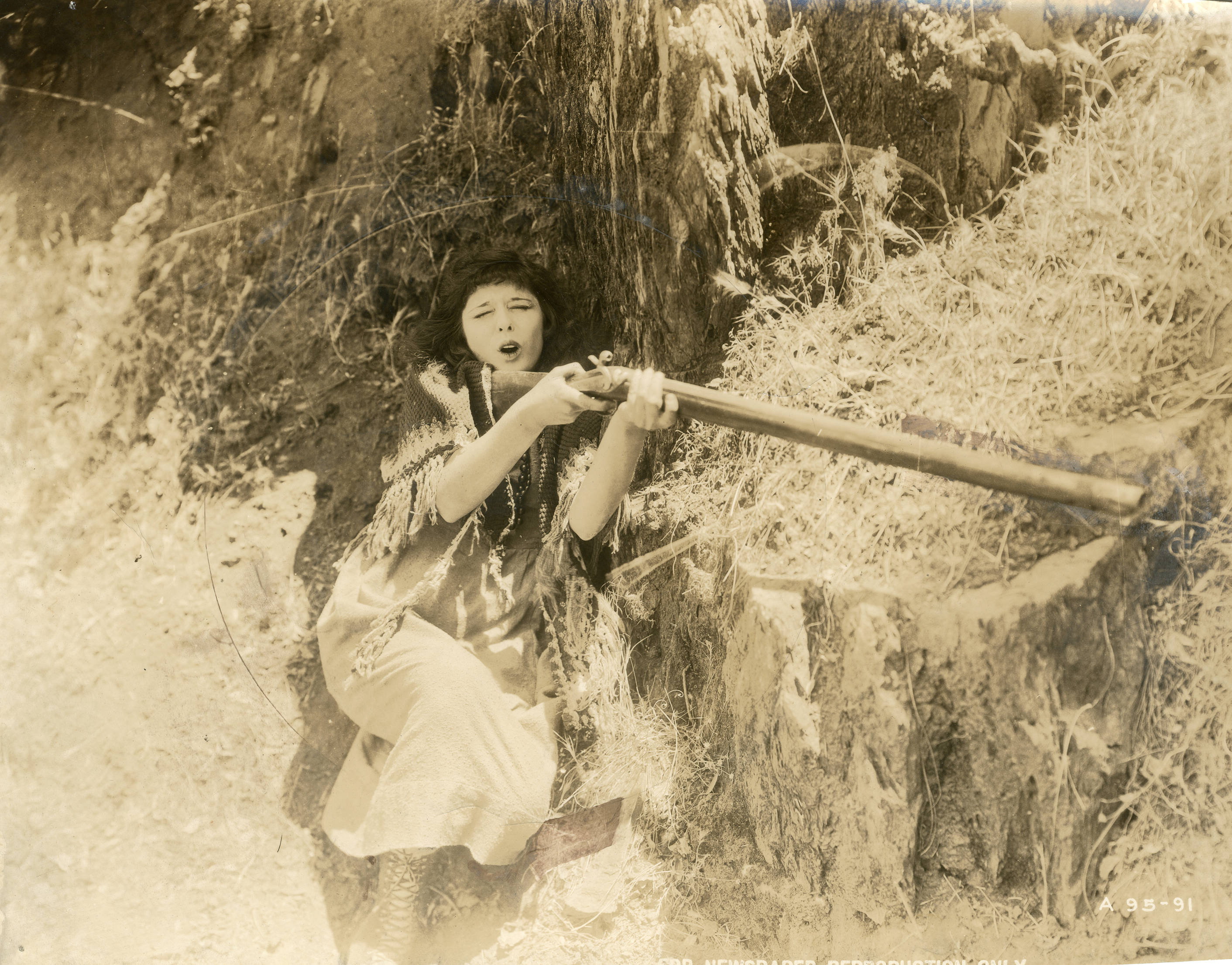 Clarine Seymour, silent film actress, in the American western film Scarlet Days (1919). Subjects: actresses